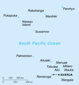 A map of the Cook Islands, showing the capital and the names of the islands.